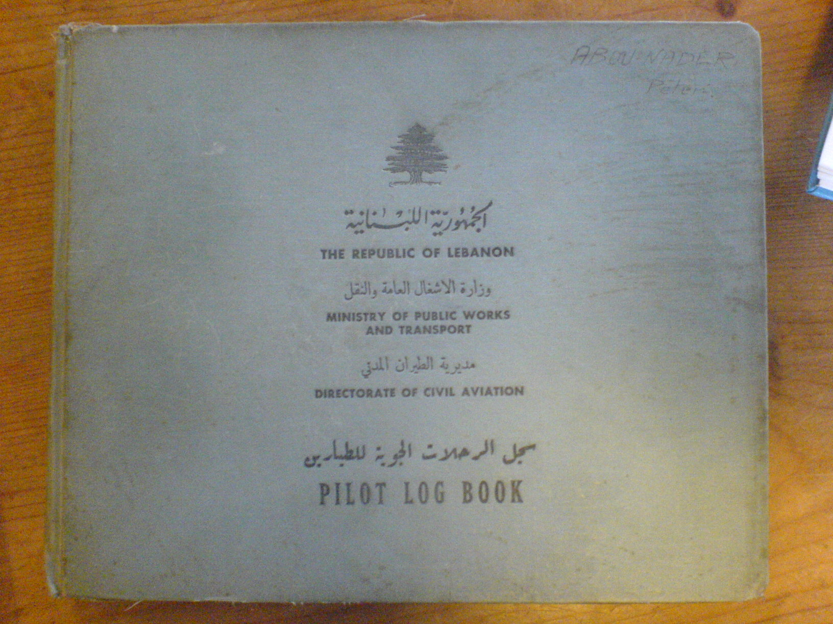 Boutros Salim AbouNader's MEA Log Book Front Cover